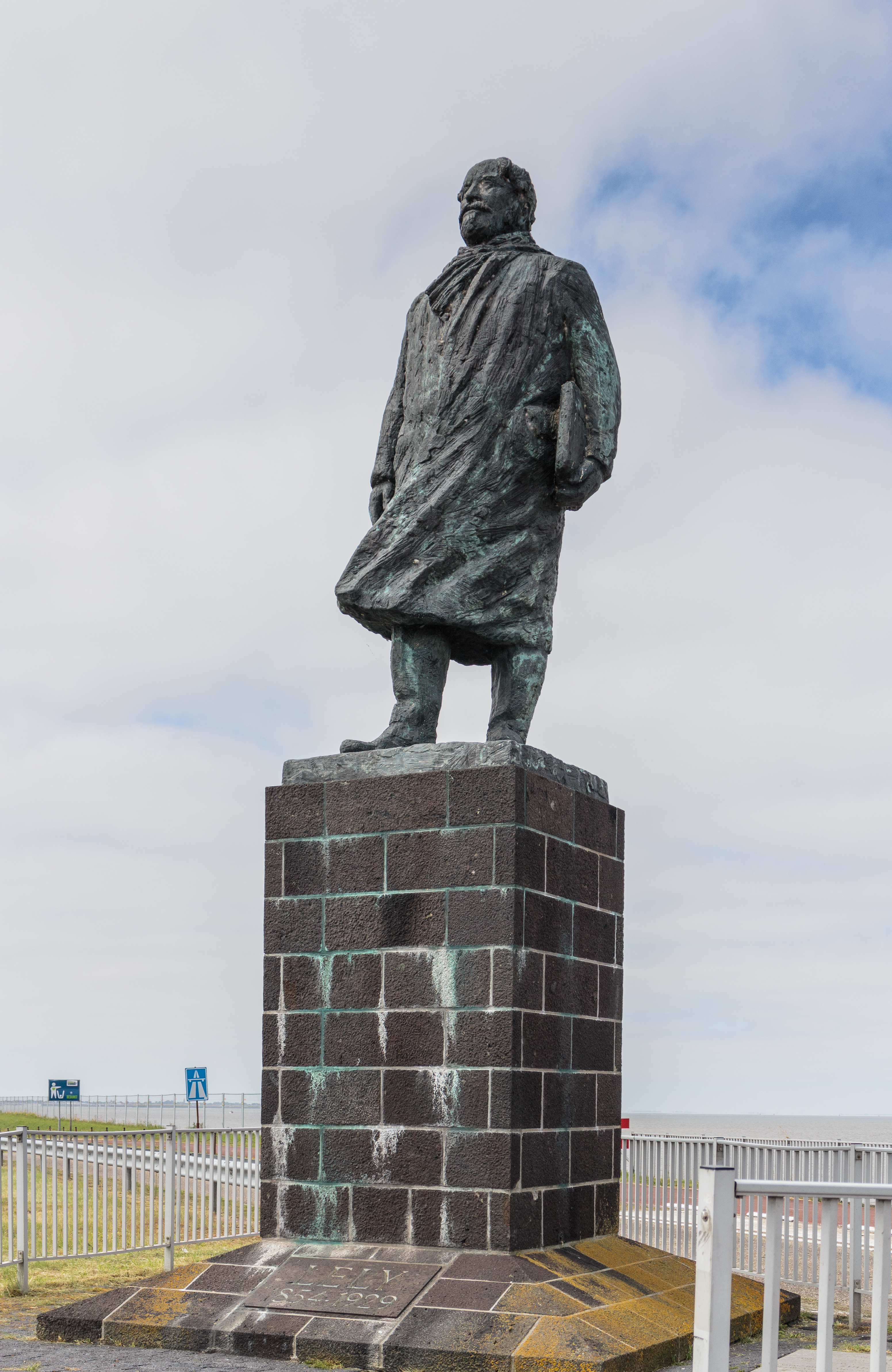 Monument afsluitdijk and surroundings. Cornelis Lely statue. Mari Andriessen (1897–1979) Alternative names Mari Silvester Andriessen; Marie Andriessen; Marie Silvester AndriessenDescriptionDutch sculptorDate of birth/death 4 December 1897 7 December 1979 Location of birth/death Haarlem HaarlemWork location Netherlands Authority control : Q844964 VIAF: 40171845 ISNI: 0000 0000 6676 7870 ULAN: 500057343 LCCN: n79145784 GND: 11864520X WorldCat creator QS:P170,Q844964